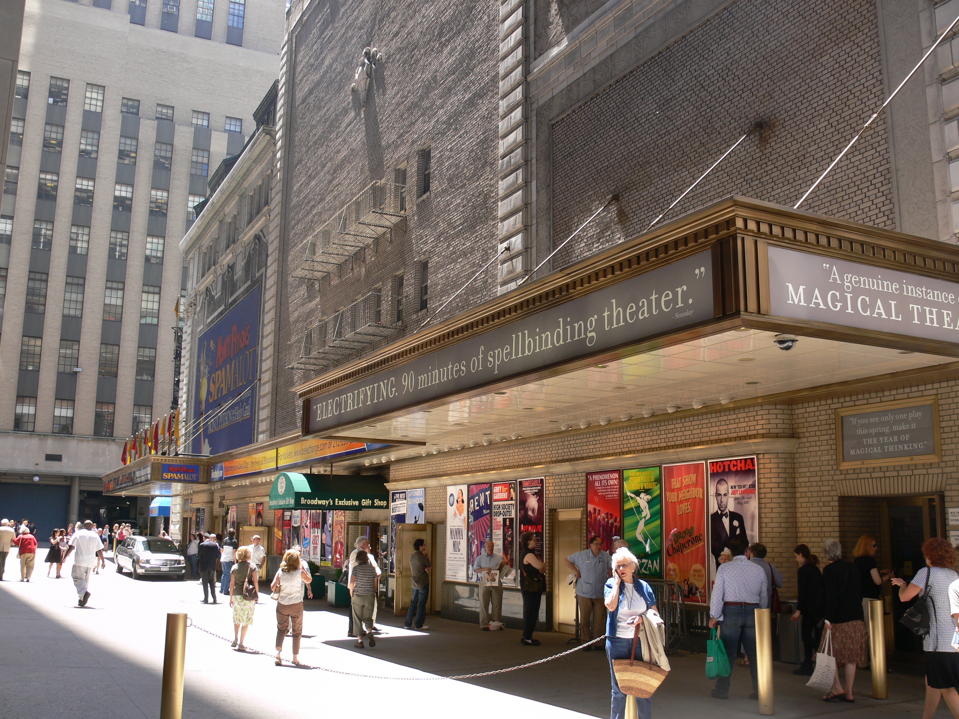 Booth Theatre and Shubert Theatre, back to back in Shubert Alley 222 West 45th Street / 225 West 44th Street, Manhattan, New York City